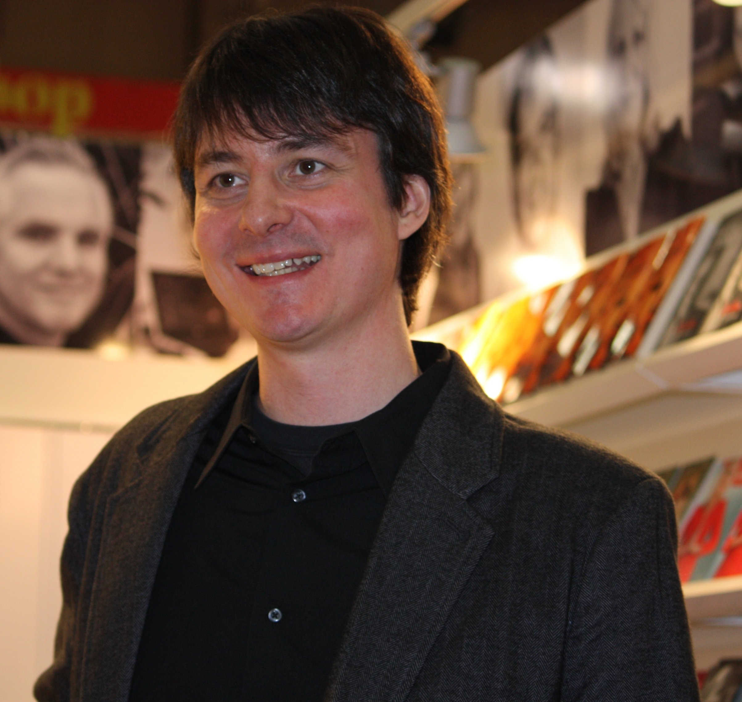 Finnish writer Antti Tuomainen at Helsinki Book Fair 2010